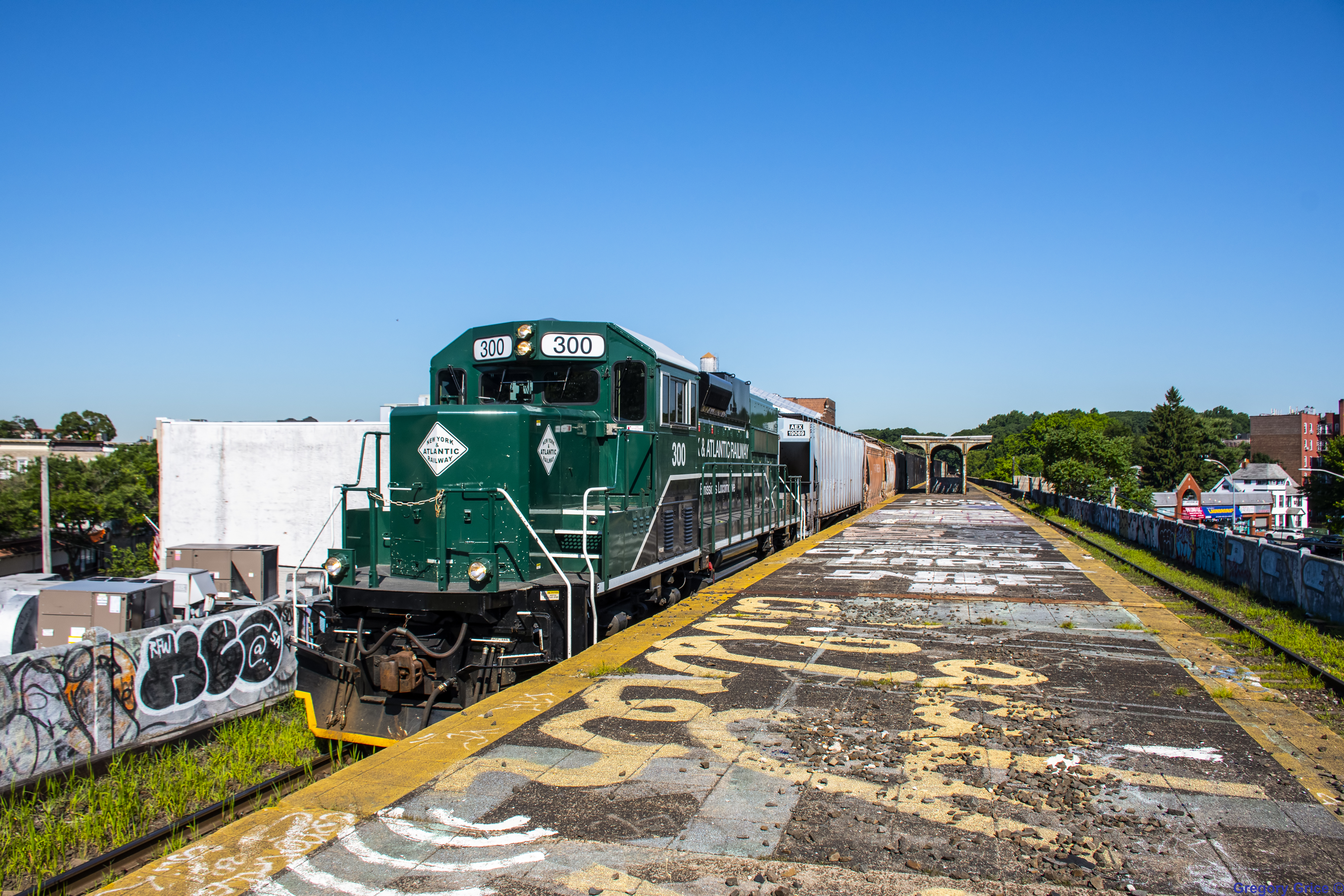 NYAR RS-40 at Richmond Hill Station